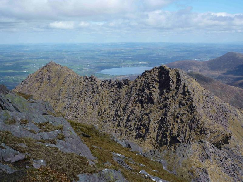 Summit of Cruach Mhor (right) and The Big Gun (left) taken from summit of Cnoc na Peiste